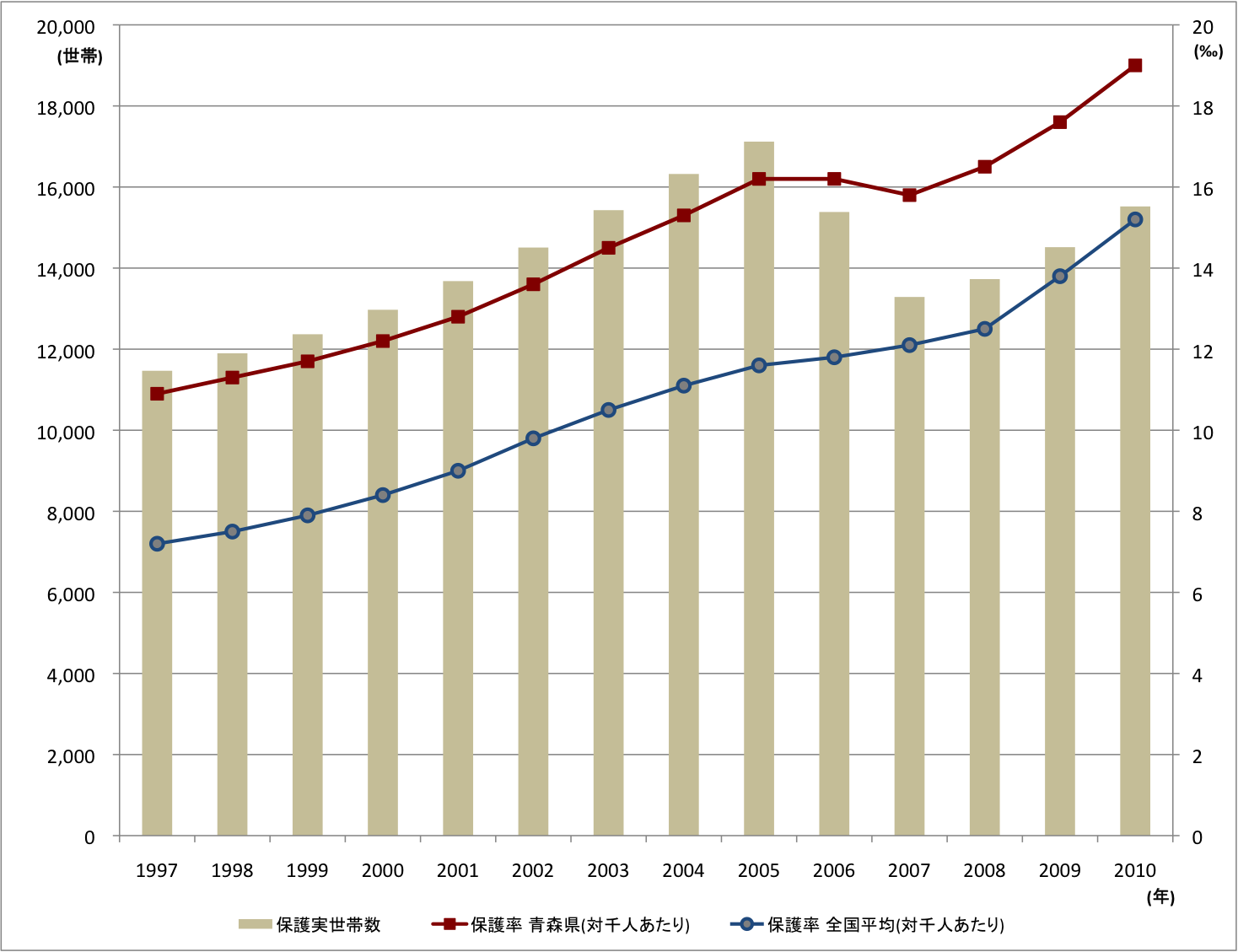 The number of Provisions of the public assistance in Aomori Prefecture from 1997 to 2010.